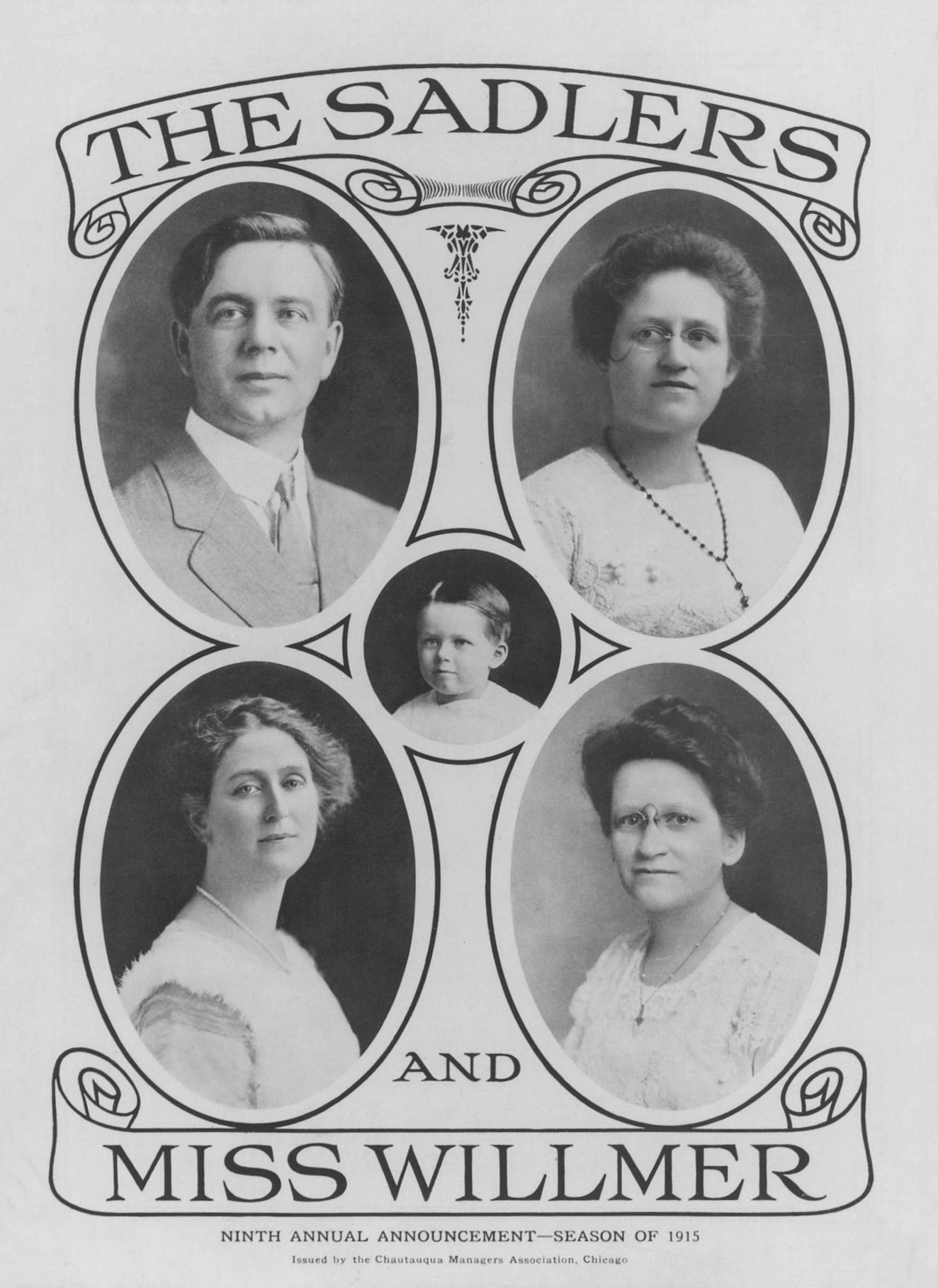 The Sadlers and Miss Willmer Chautauqua brochure.